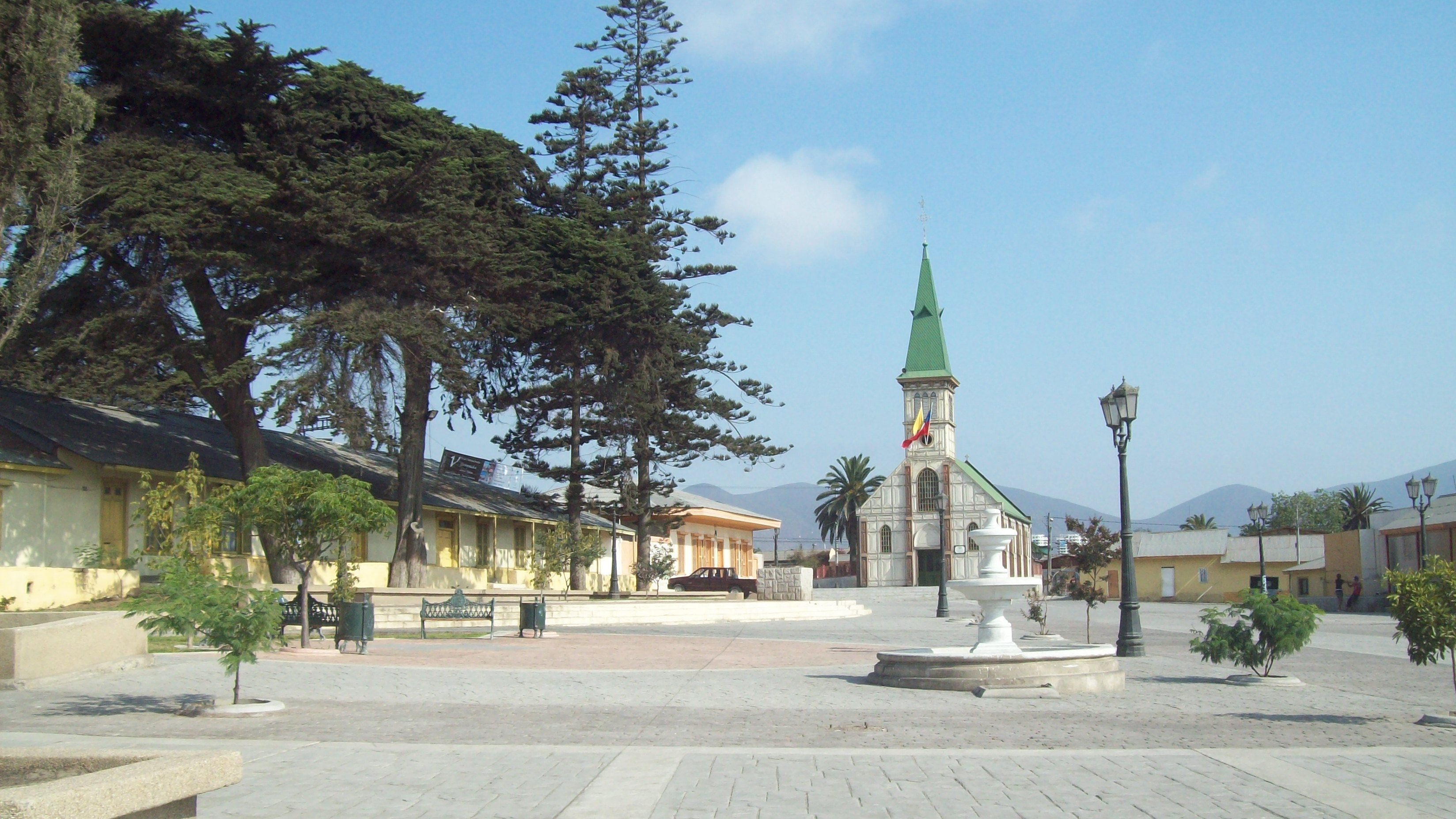 Square and Church of Guayacán.